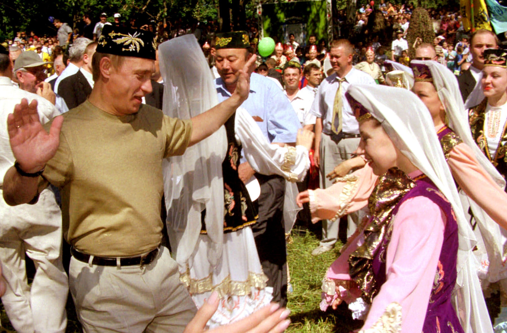 KAZAN. Sabantui, a Tatar festival.